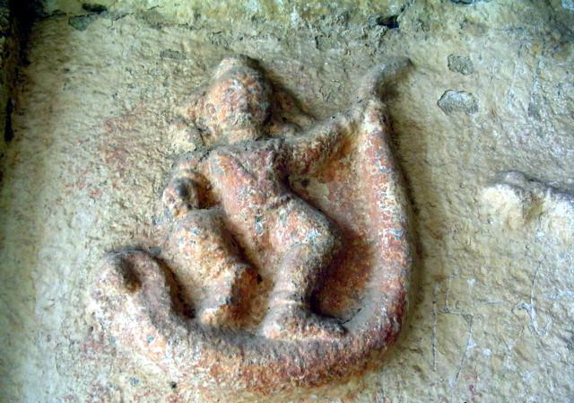 A Hindu temple naga decoration at Hampi. (photographed by self)